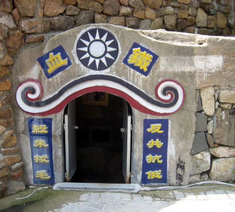 Air raid shelter in Jinsha Village, Nangan Township, Lienchiang County, Fukien Province, Republic of China. Now it houses a small display of folk art. The couplet slogan says "Oppose Communism and Fight with Soviet Russia" and "Kill Zhu De and Mao Zedong."